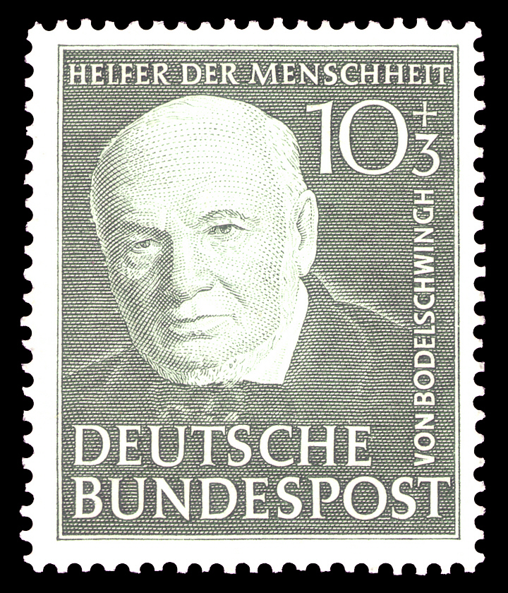 Social welfare stamp series 1951, Friedrich von Bodelschwingh (1831-1910) Graphics by Hermann Zapf Ausgabepreis: 10+3 Pfennig First Day of Issue / Erstausgabetag: 23. Oktober 1951 Michel-Katalog-Nr: 144